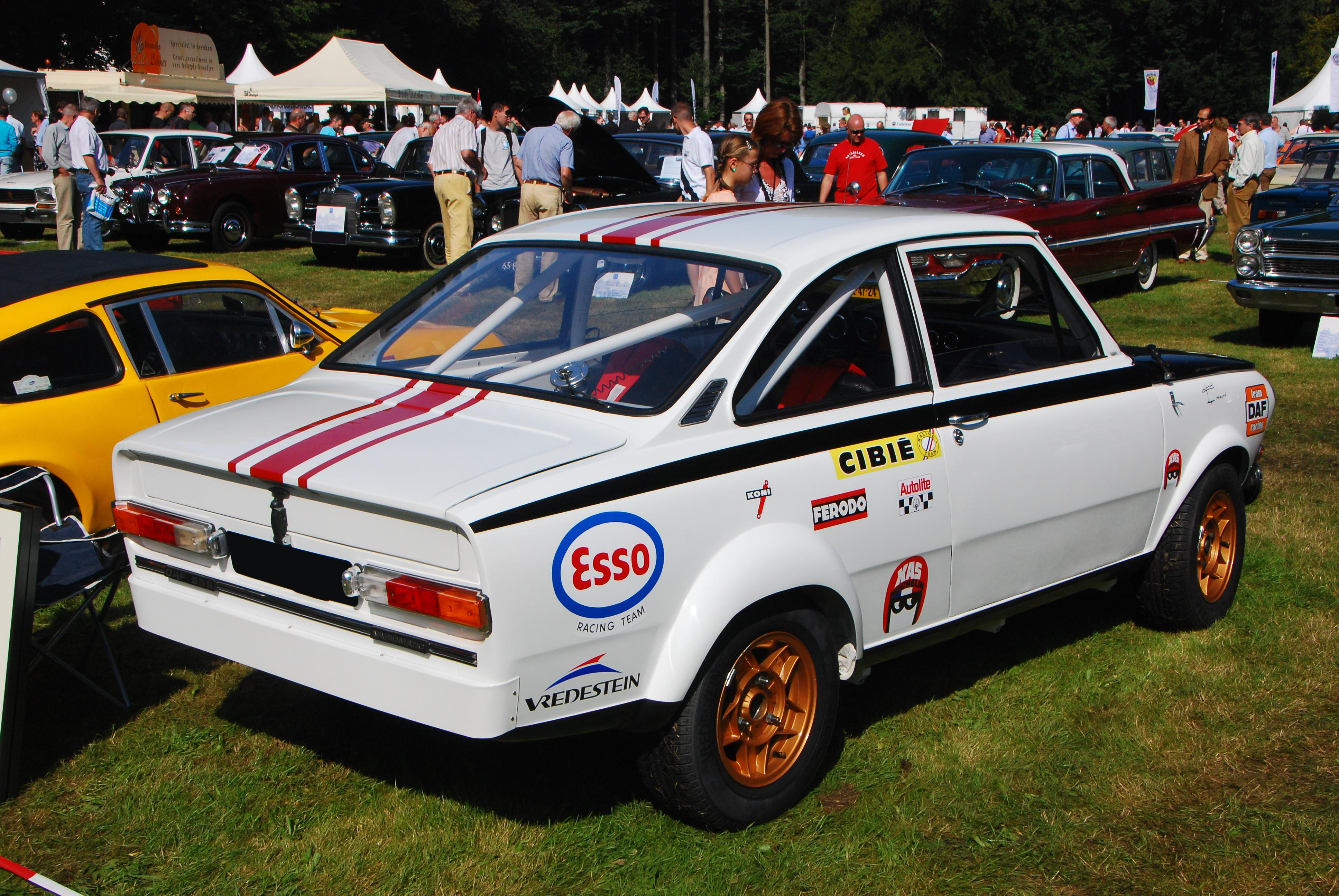 Daf 55 T seen during Concours d'Elegance 2008, Apeldoorn (NL)